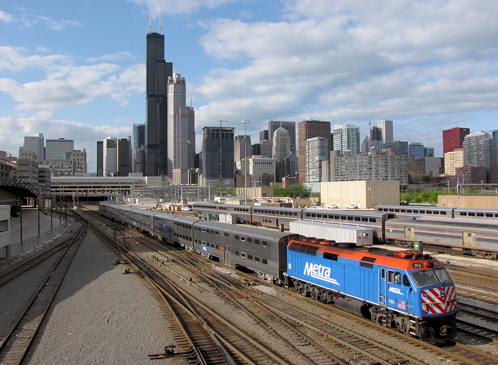 A Metra train in downtown Chicago bound for the suburbs.